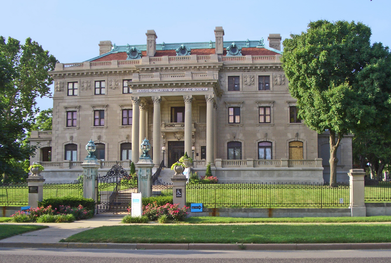 Kansas City Museum of History and Science, Kansas City, Missouri